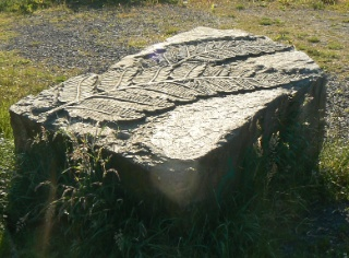 Fire sculpture by Thompson Dagnall on the Ribble Link Sculpture Trail in Lancashire, England